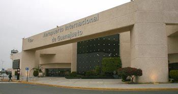 GTO AIRPORT